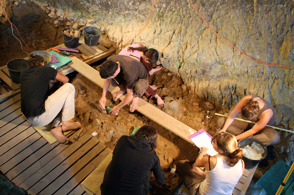 close view of the excavation of the noisetier cave during summer 2009